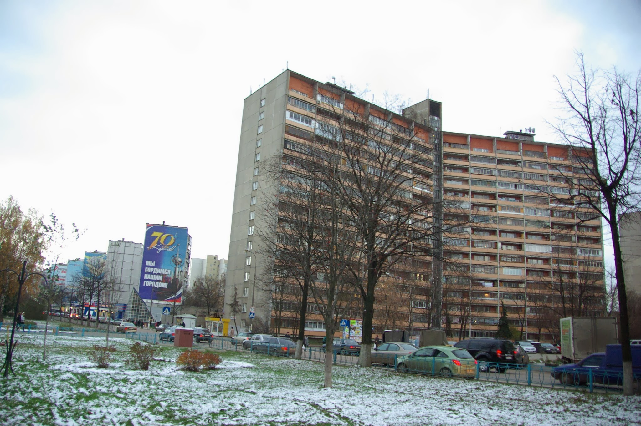 Korolyov, Moscow Oblast, Russia